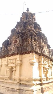 Kalyanavenkatesaperumaltemple கல்யாணவெங்கடேசப்பெருமாள் கோயில்